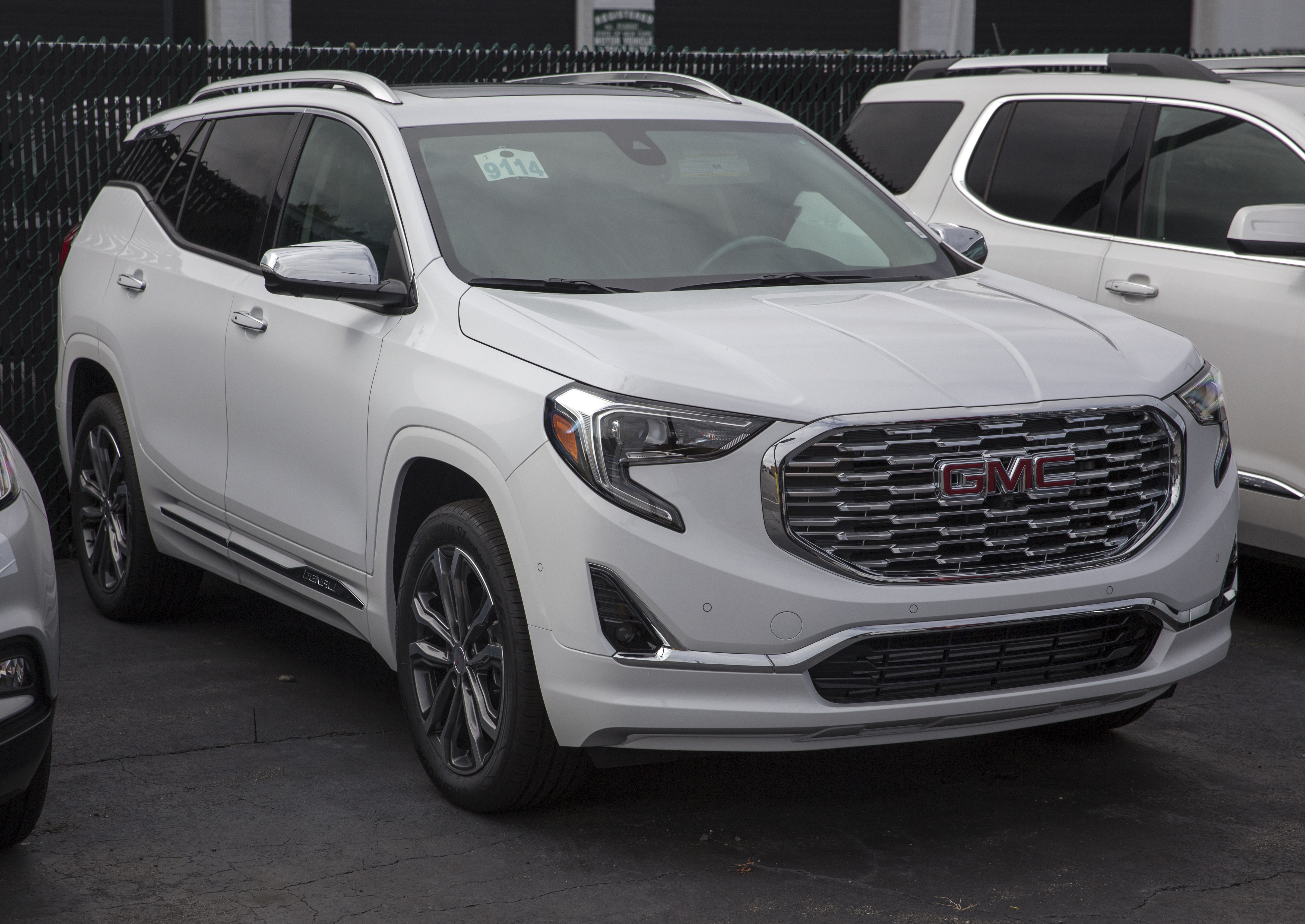 2018 GMC Terrain Denali.